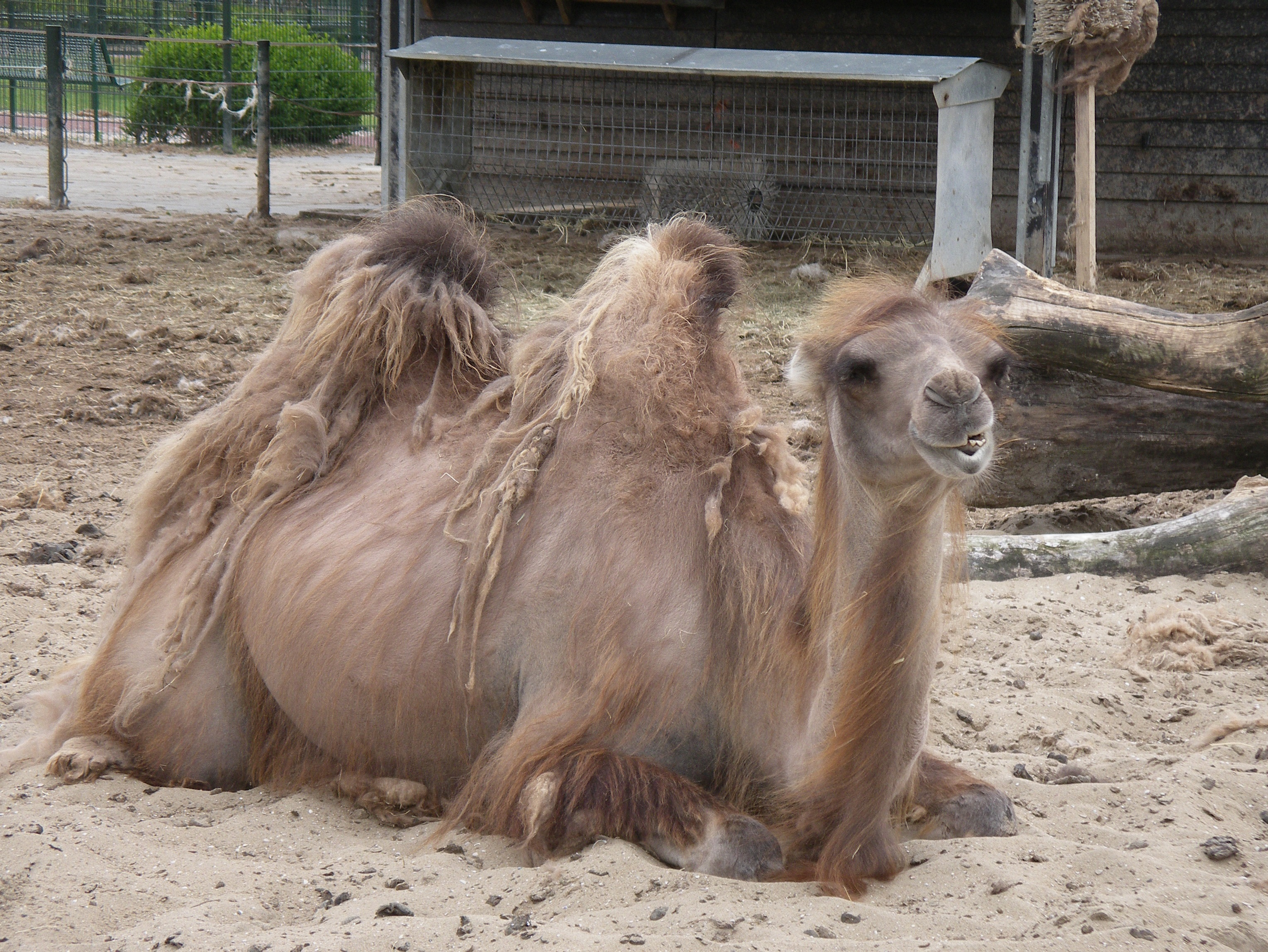 Camel, Van Blanckendaell Park, Tuitjenhorn, The Netherlands